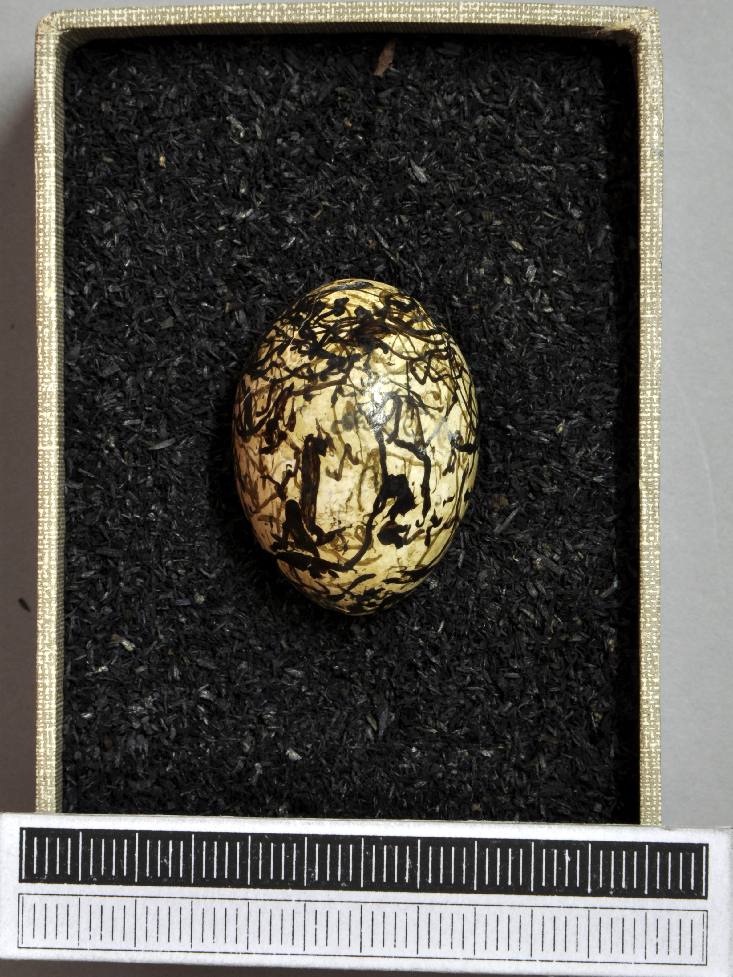 Jacanas Jacanidae , egg, Coll. Museum Wiesbaden